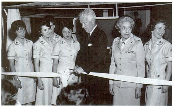 Description from page 190 of The Women's Army Corps, 1945-1978 by Bettie J. Morden ( "Under Secretary of the Army Stephen Ailes cuts the ribbon to open the WAC Exhibit Unit on the Pentagon concourse with Colonel [Emily C.] Gorman, Director, WAC, and enlisted members of the newly formed WAC Exhibit Team, 14 May 1963."